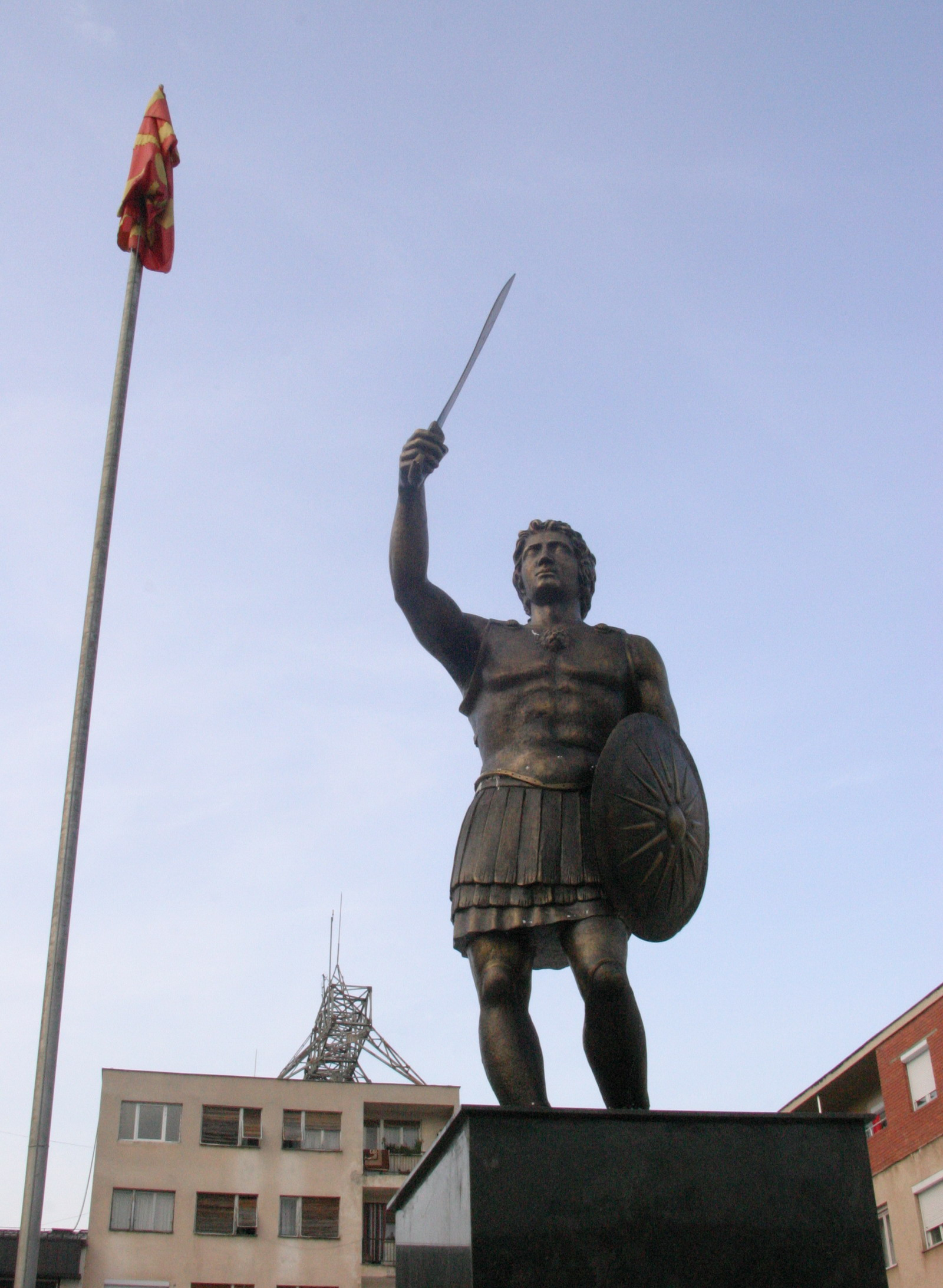 Monument of Alexander The Great in Shtip, Republic of Macedonia